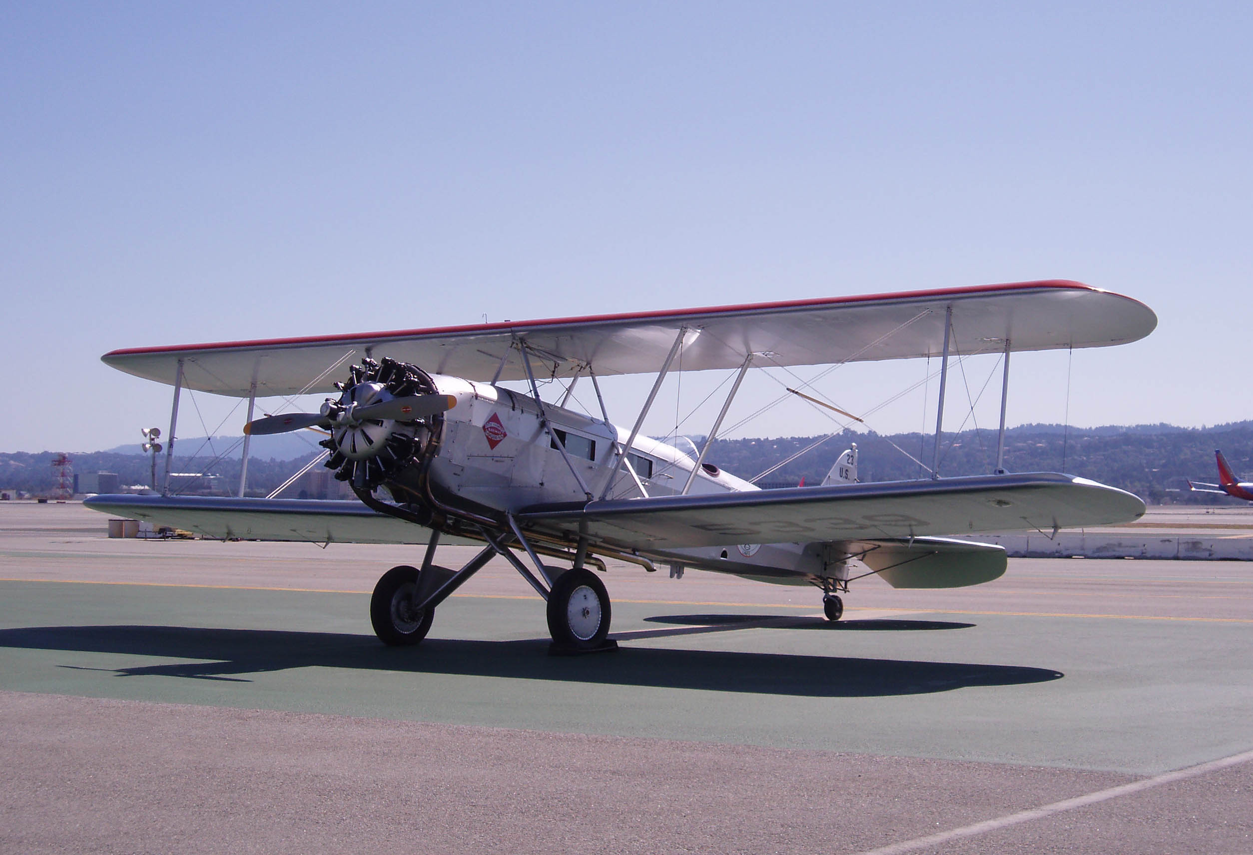 Pemberton's Boeing 40C at San Francisco.